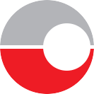 The new logo of Posten Norge.